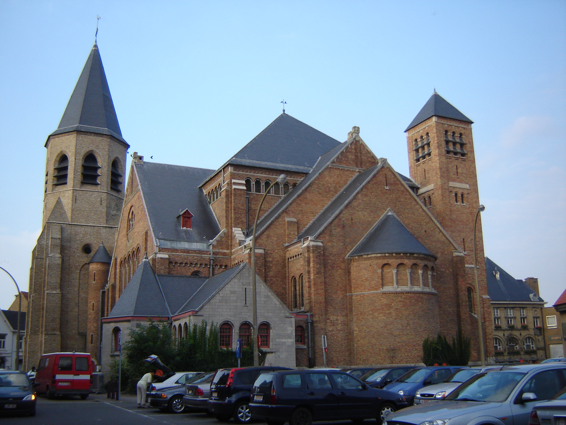 Church of Saint Willibrord in Middelkerke. Middelkerke, West Flanders, Belgium